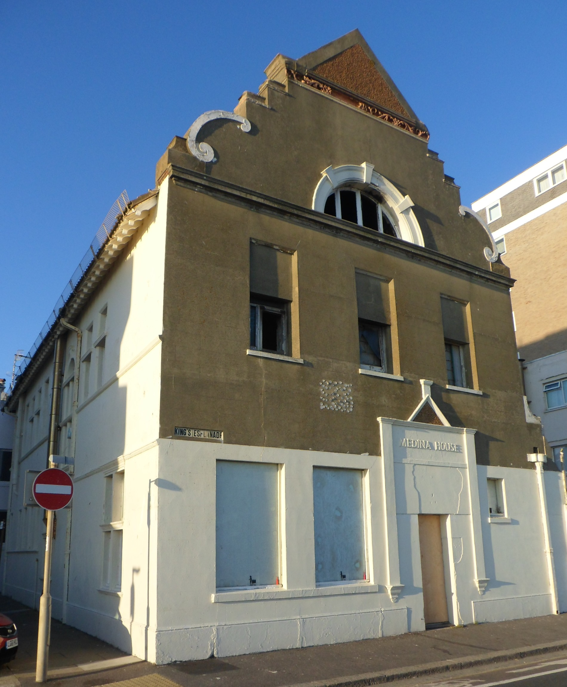 Medina House, Kings Esplanade, Hove, City of Brighton and Hove, England. A Turkish bath and slipper bath which was built in 1893–94 and opened on 13 September 1894. The "curious, whimsical" building has (as of 2015) suffered two fires and been the subject of nine planning applications to demolish it. The building seems to polarise opinion locally, with many people determined to save it and many others keen to see the site redeveloped. This picture dates from September 2013, between the two fires. The building has "locally listed" status and was retained on Brighton and Hove's Draft Local List of Heritage Assets in March 2015 when the whole list was reassessed. See here for the heritage assessment.